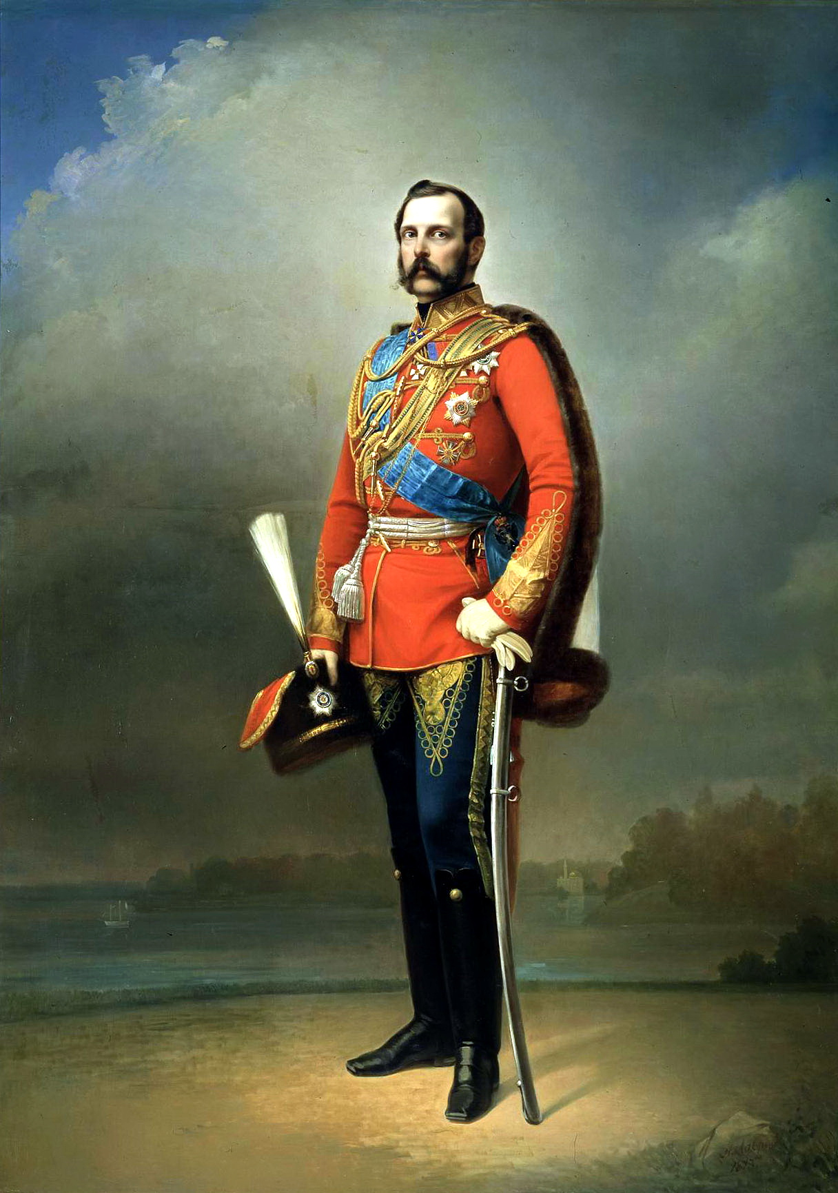 Nikolay Lavrov. Alexander II of Russia. 1873